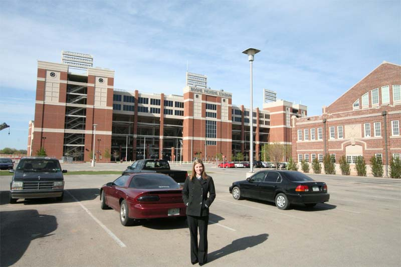 This is a photo of Boone Pickens Stadium in Stillwater Oklahoma that I took myself and am releasing into the Public Domain.